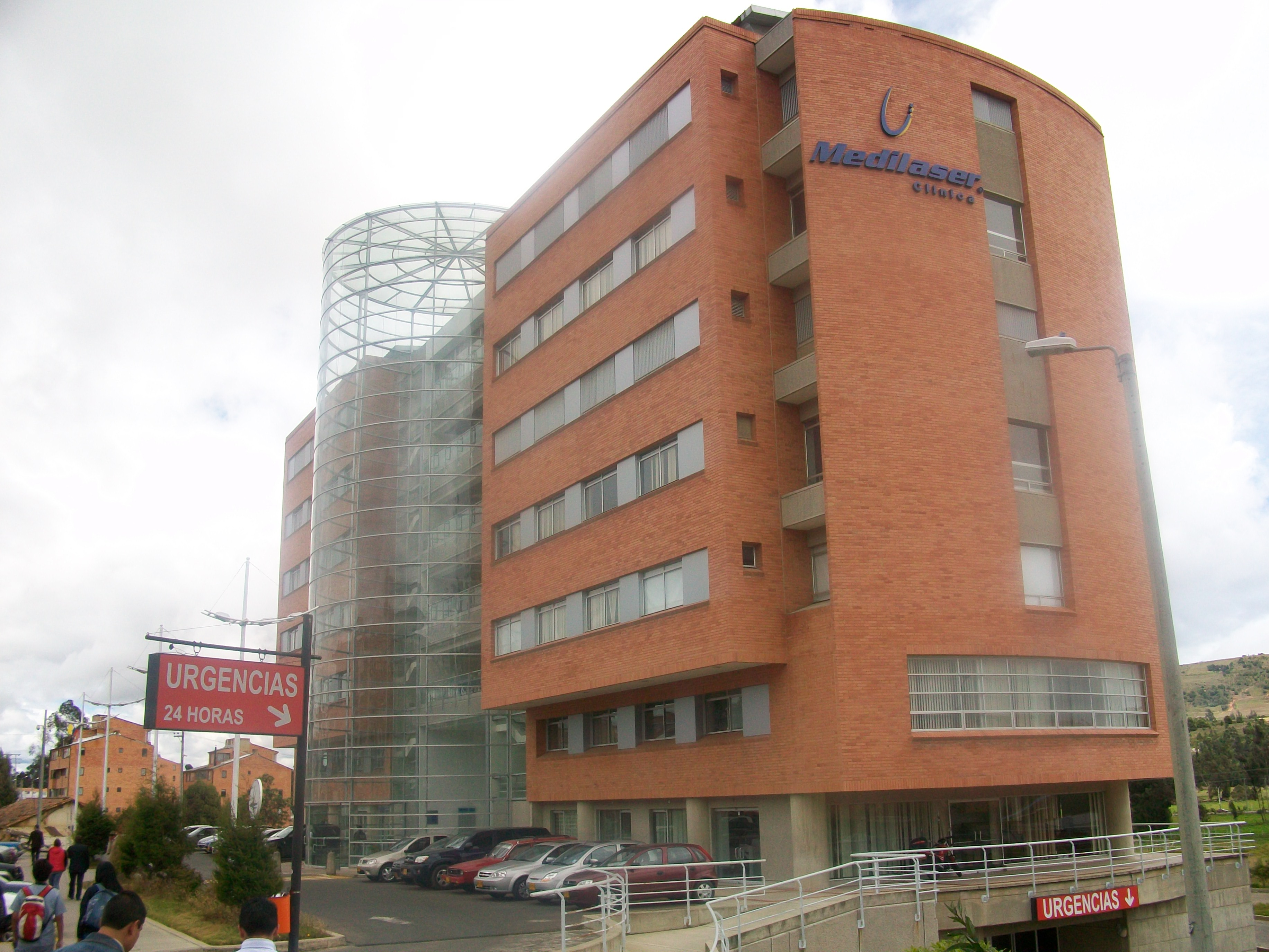 Specialized Clinic at the north end of Boyacá